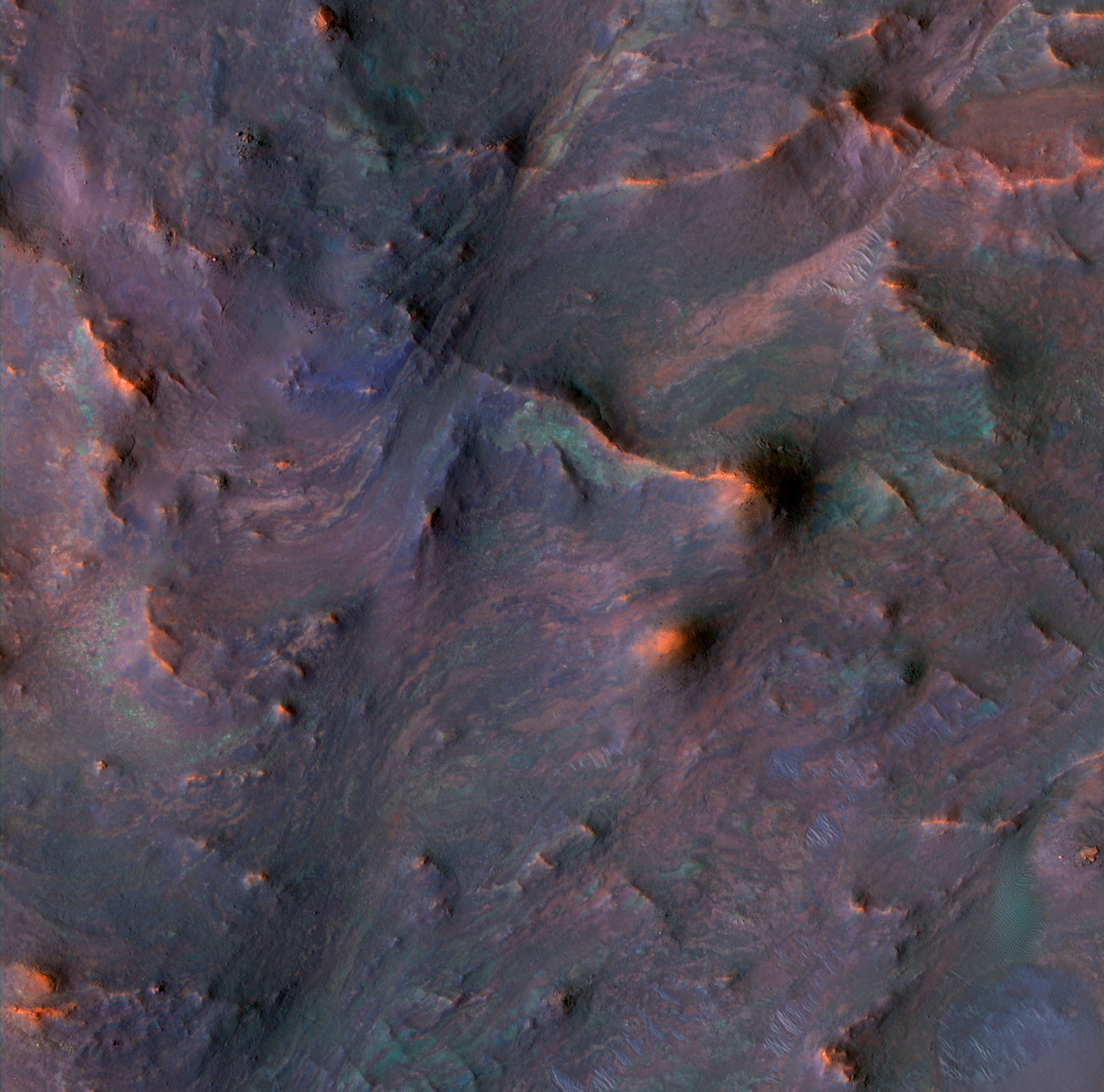 The Color Palette of Nilosyrtis Mensae ESP_028825_2070 Science Theme: Fluvial Processes The region of Mars north of the Syrtis Major volcanics and the Isidis impact basin has well-exposed bedrock with diverse compositions. These regions are dark so the colors aren't well seen except with a sensitive imager like HiRISE and special processing. The blue and green colors are generally due to mafic (magnesium and iron rich) minerals that are not altered by water, while the warmer colors are due to altered minerals like clays. The structure in this scene is quite complex from a combination of impact and perhaps fluvial and volcanic processes, tectonic faulting, and erosion. The terrain is very old and has experienced a complex geologic history.